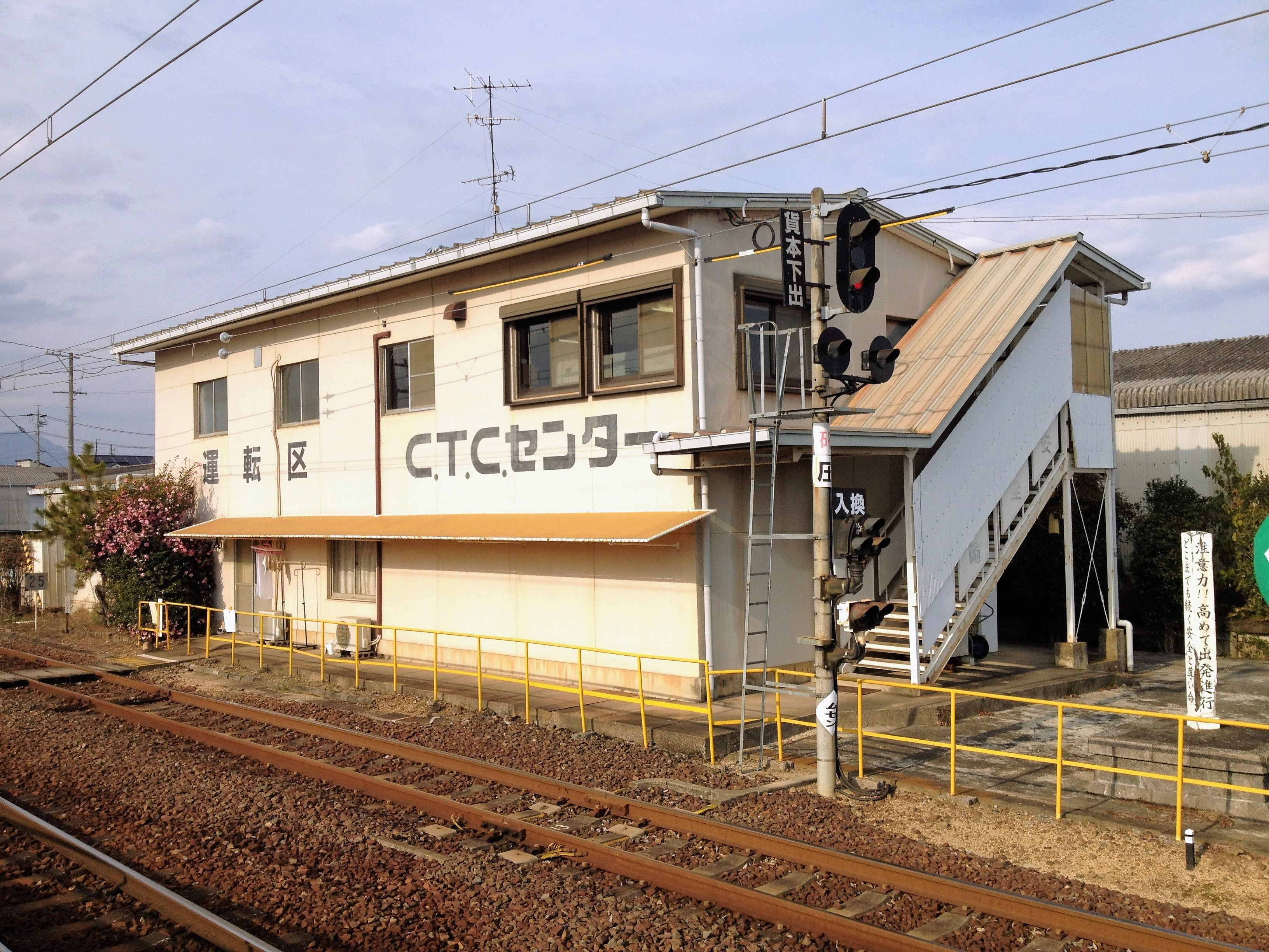 Hobo Station on the Sangi Railway